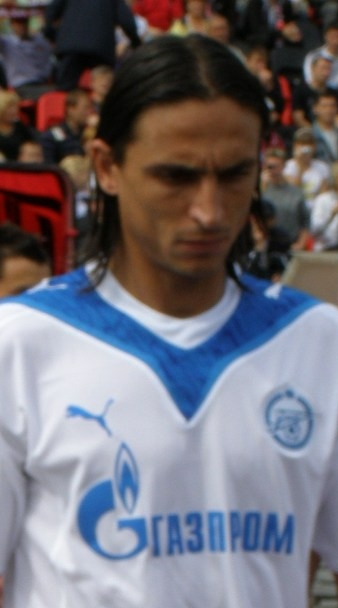 Fernando Meira as a player of FC Zenit St. Petersburg